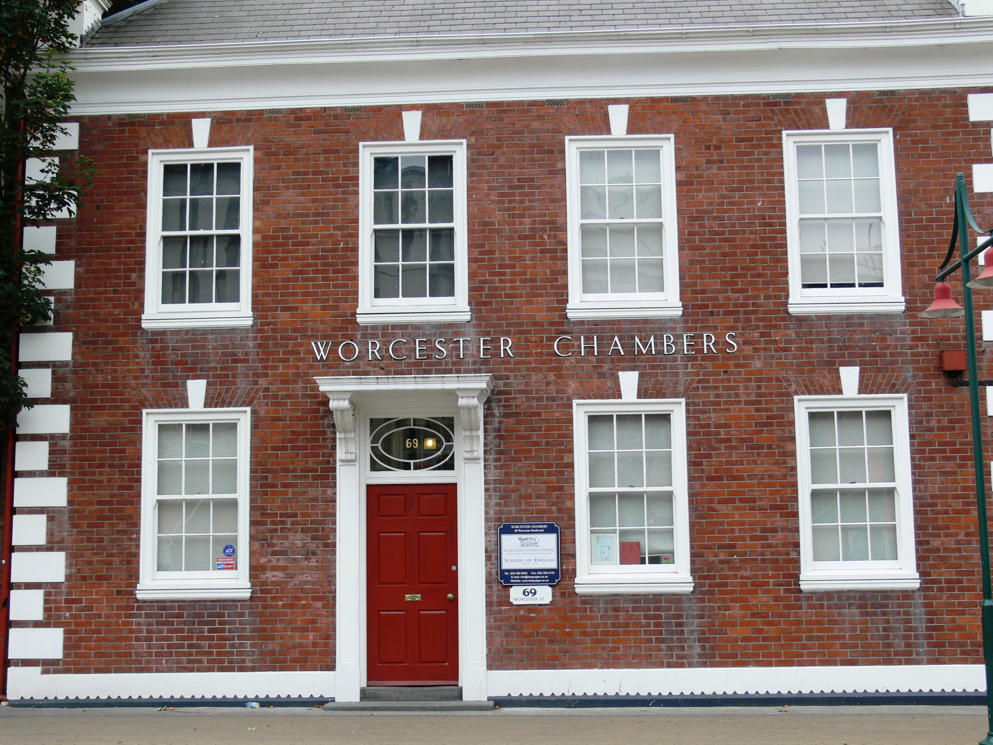 The Worcester Chambers in 2007.